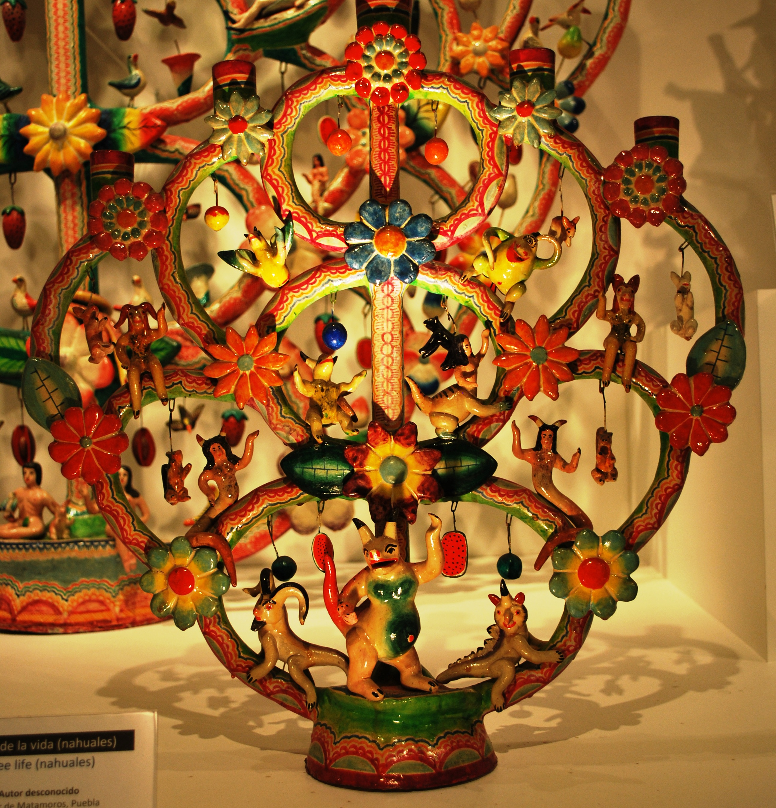 Tree of Life with nahual (Aztec human/animal demons) theme by unknown author on display at the Museum of Artes Populares in Mexico City